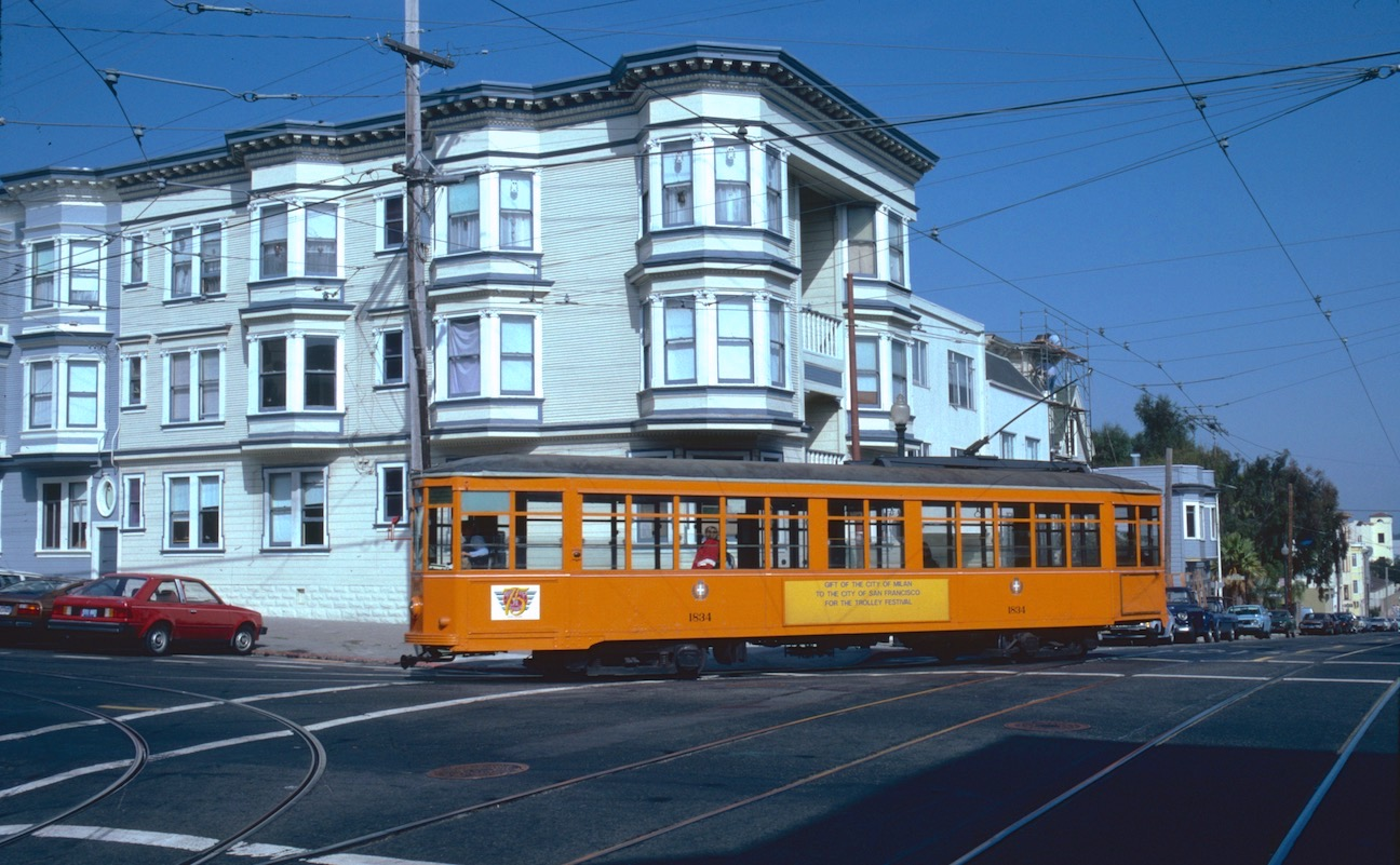 During the 1987 San Francisco Historic Trolley Festival, Milano car 1834 is turning from 17th Street north into the 1986-opened wye on Noe Street. (Some years later, the Noe Street track was made part of a full loop, no longer a dead-end wye, and the direction of travel was changed to one-way southbound only.) Note the sign on the car's side, reading "Gift of the City of Milan to the City of San Francisco for the Trolley Festival". The "75" decal at left was the logo Muni used in celebration of its 75th anniversary year (1987).